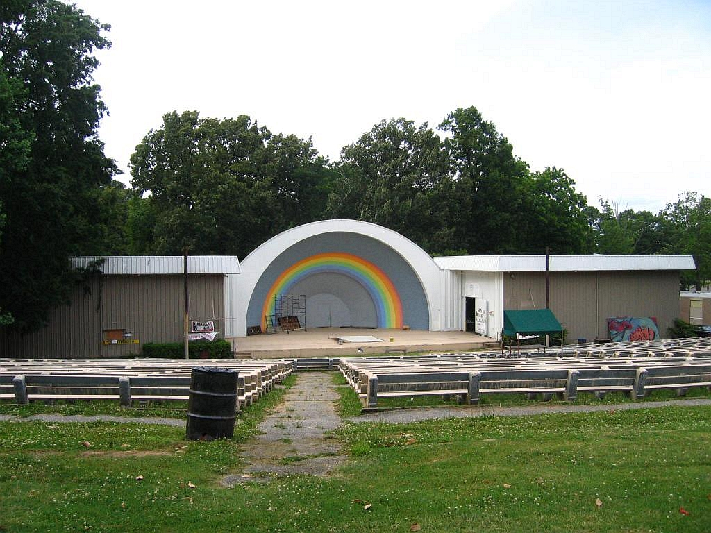 Photo of the Overton Park Shell in Memphis, TN.